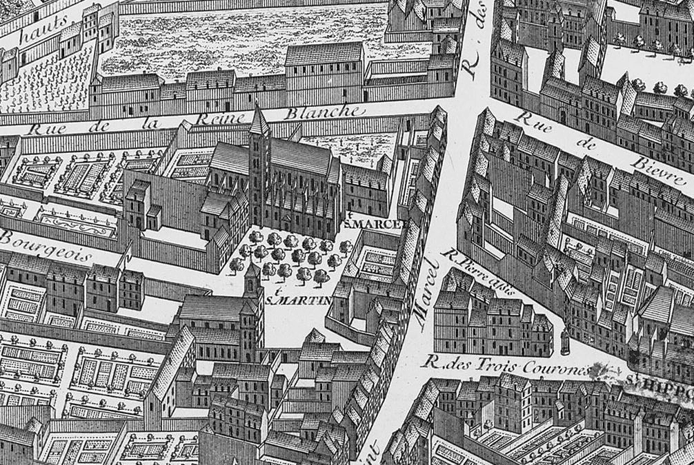 Collégiale Saint-Marcel, Paris.